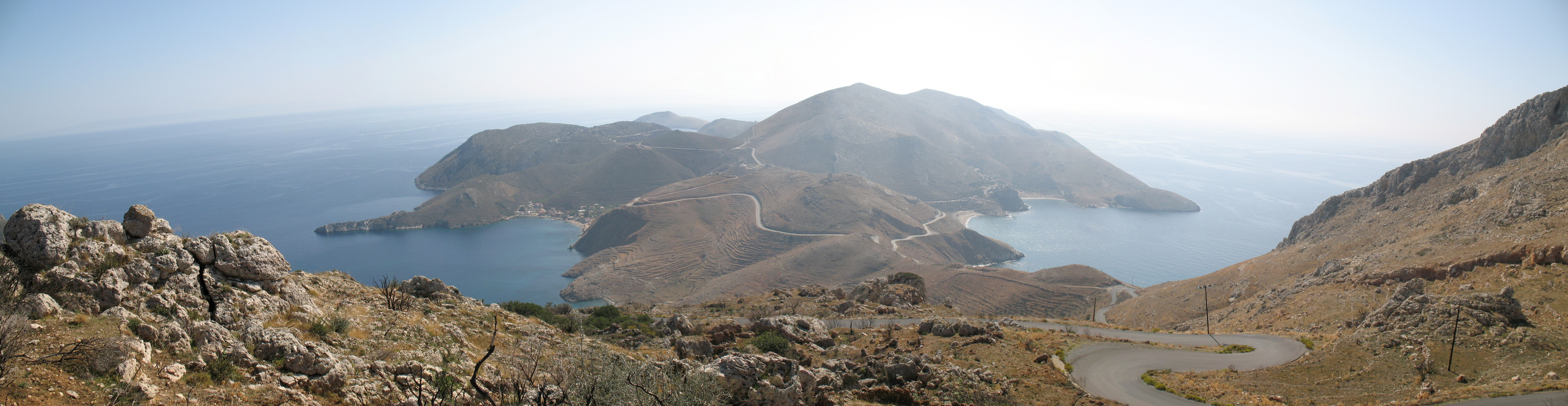 Panorama of Southern Mani (8'000x2'000px)